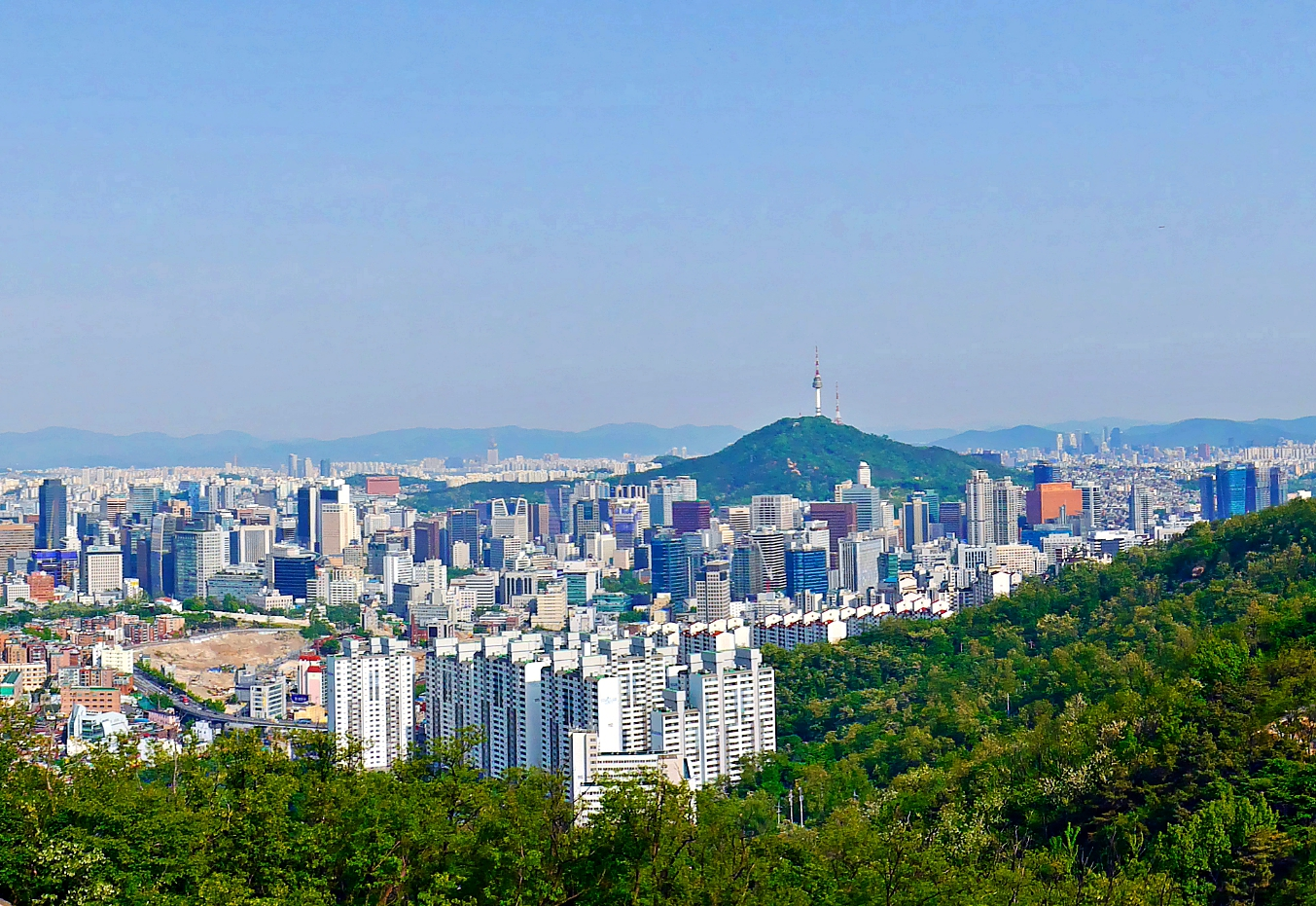 View of Seoul.